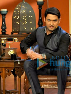 Kapil Sharma at promotion of film 'Main Tera Hero' on Comedy Nights with Kapil